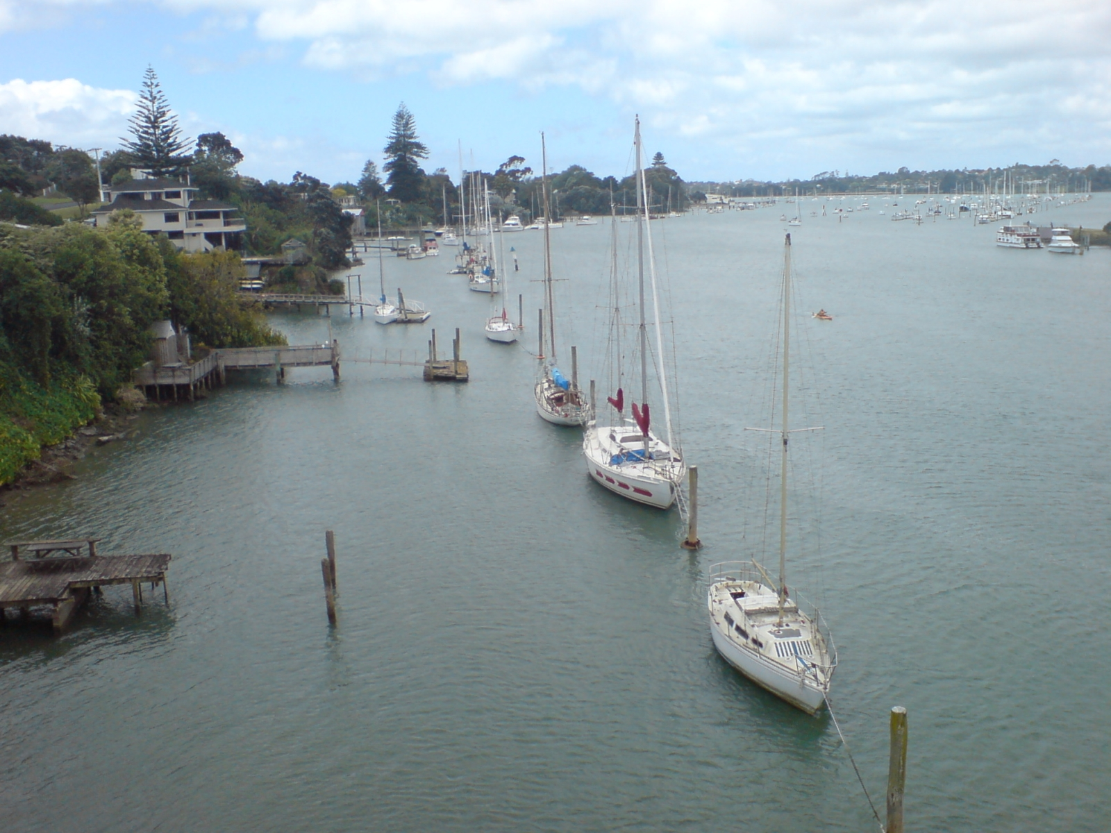 Looking north along the western shore of the Tamaki River (actually an estuary) in Auckland, New Zealand. Taken from Panmure Bridge.